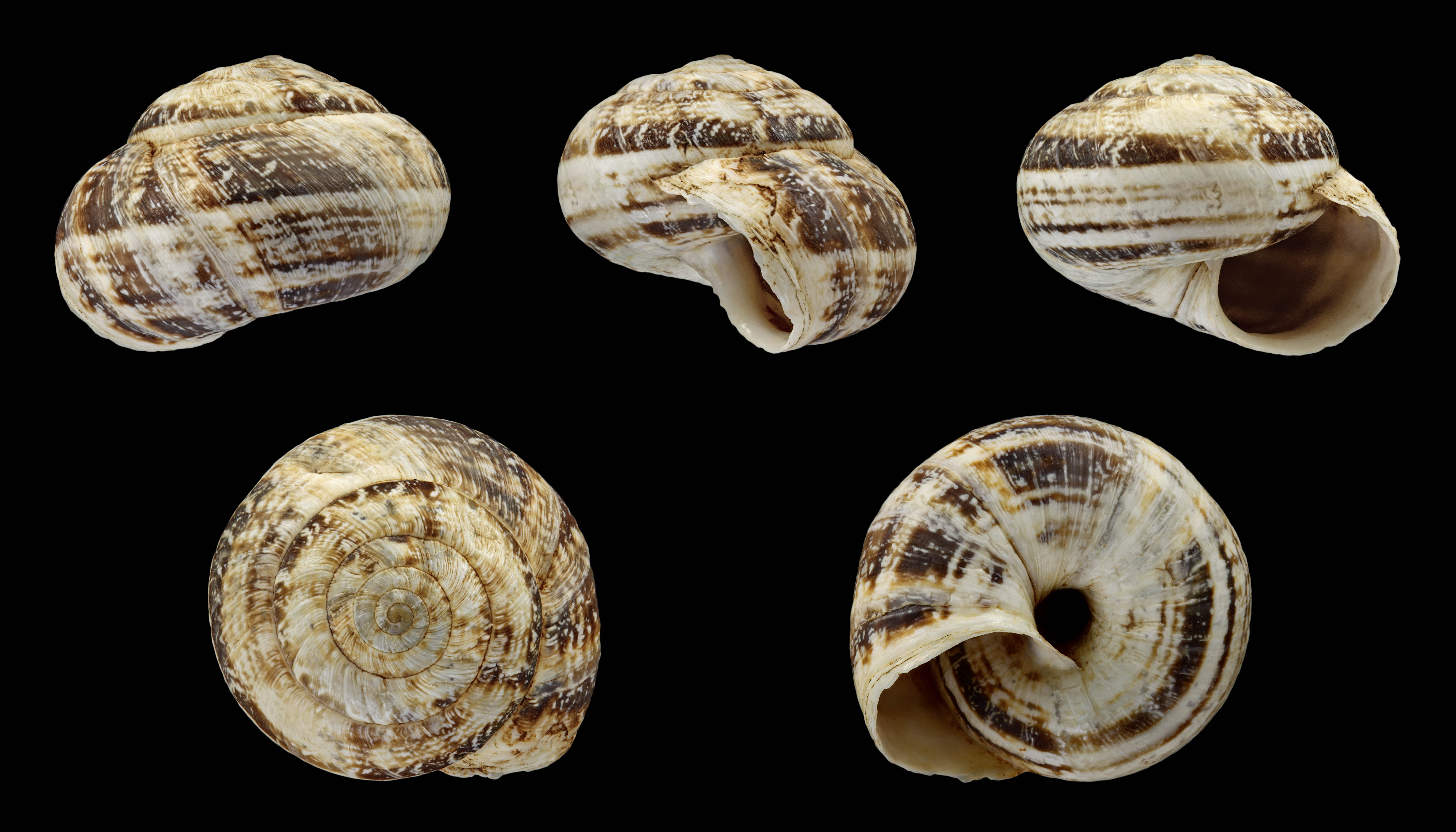 Xerocrassa cretica (Férussac, 1821); diameter 1.9 cm; Collected between Limenas Chersonisou and Malia, Crete, Greece; Shell of own collection, therefore not geocoded.